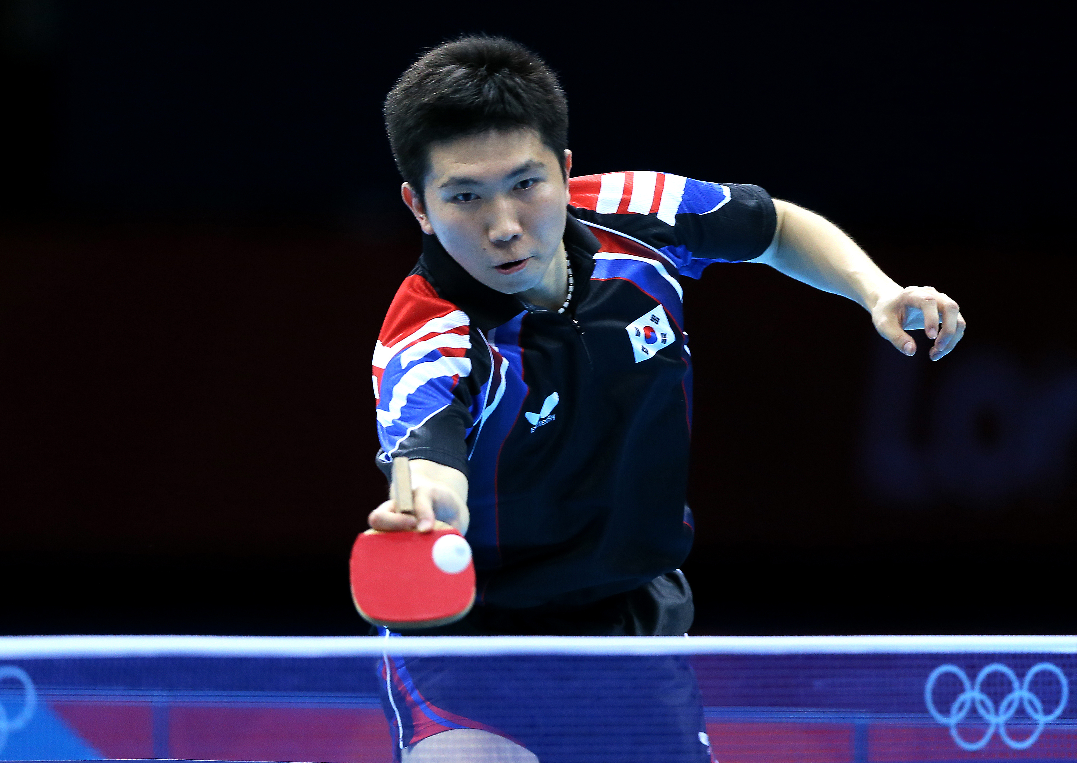 2012 London Olympic Games Men's team table tennis Korea team won silver medal. 2012.08.09. Photo by Korean Olympic Committee Ministry of Culture, Sports and Tourism Korean Culture and Information Service 2012 런던 올림픽 남자 탁구 남자단체전 (주세혁, 오상은, 유승민) 은메달 획득 사진제공 - 대한체육회 문화체육관광부 해외문화홍보원